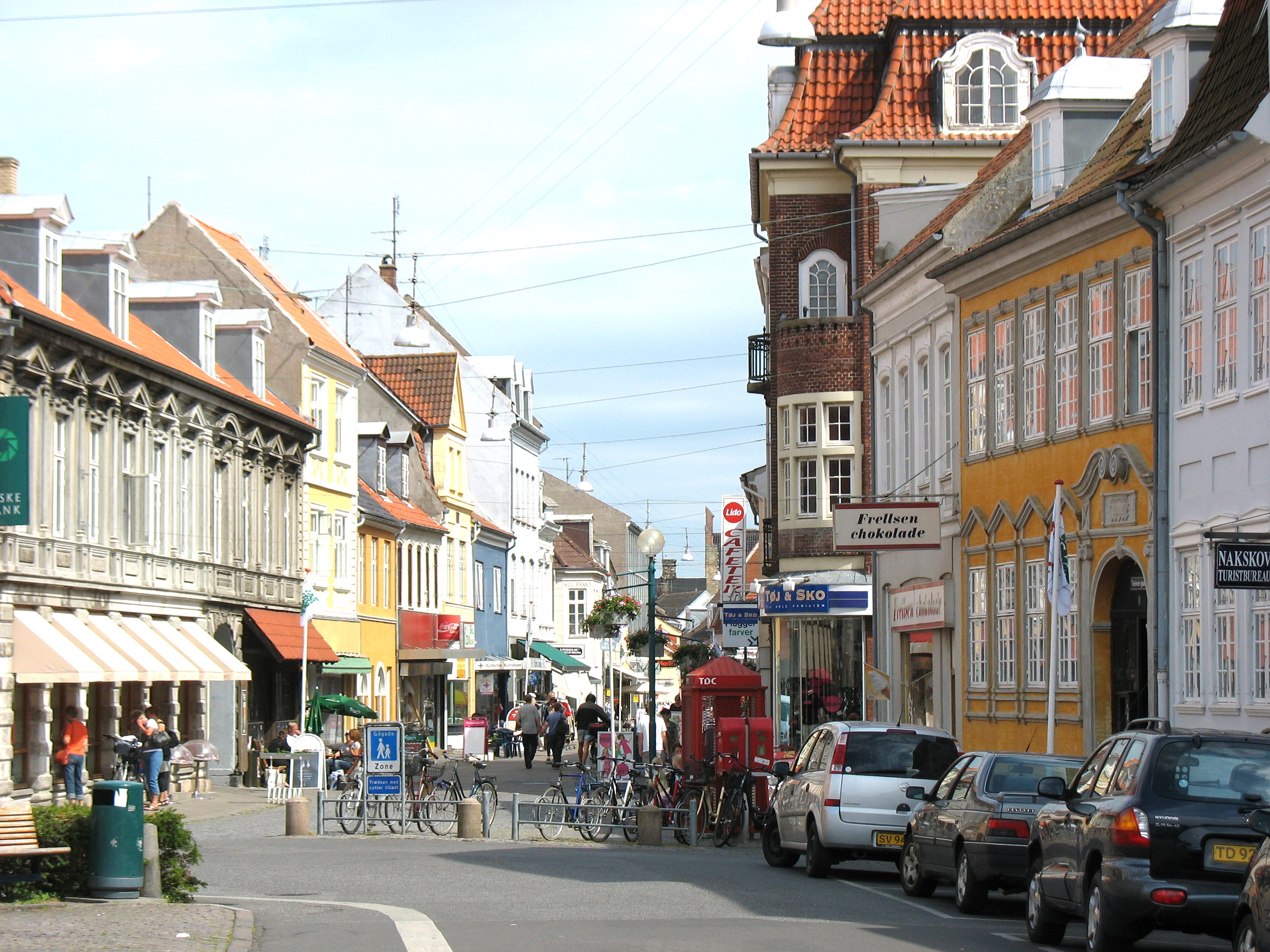 A view at the pedestrian street "Søndergade" in the town "Nakskov". It is located on the island Lolland in east Denmark.